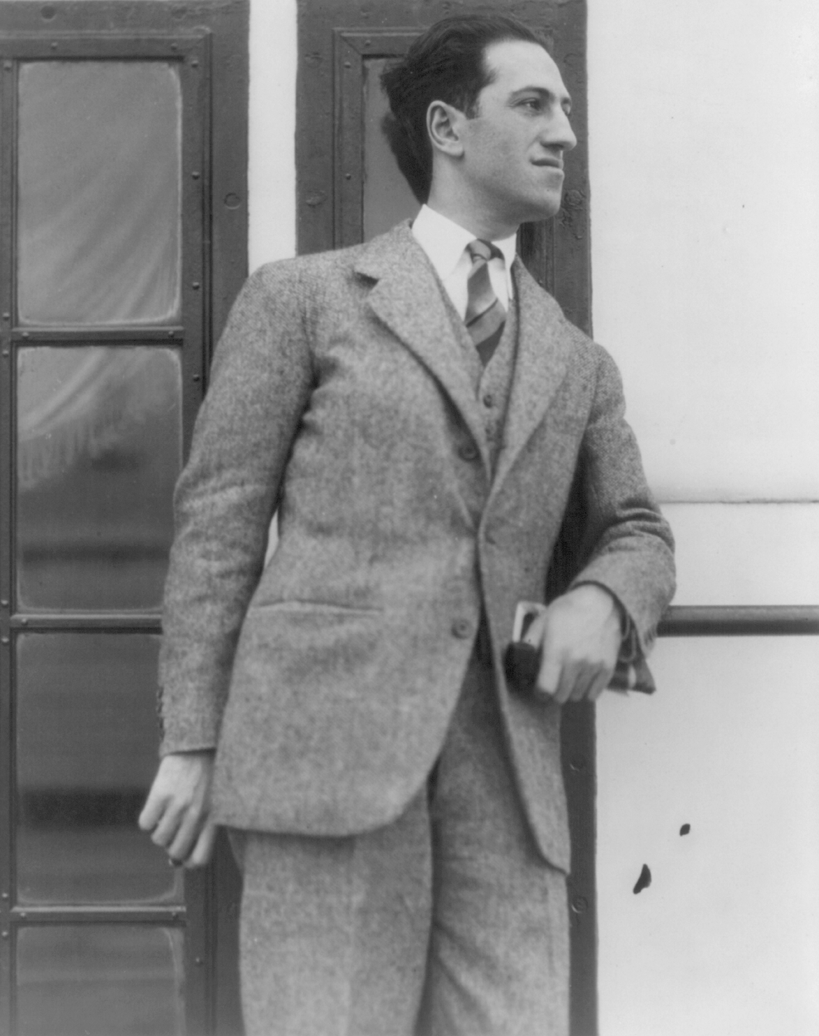 George Gershwin (1898 – 1937), an American composer